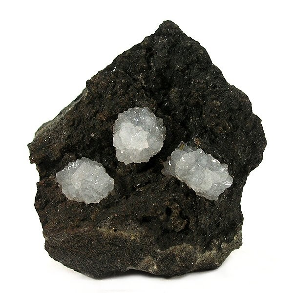 Phillipsite Locality: Corporation quarries, Clifton Hill, Collingwood, Melbourne, Victoria, Australia (Locality at ) Size: 4.3 x 3.5 x 2 cm. A really nice miniature of phillipsite, with translucent sharp crystal rosettes to 1 cm. Ex. Martin Zinn and Australian National Museum of Victoria Collections.